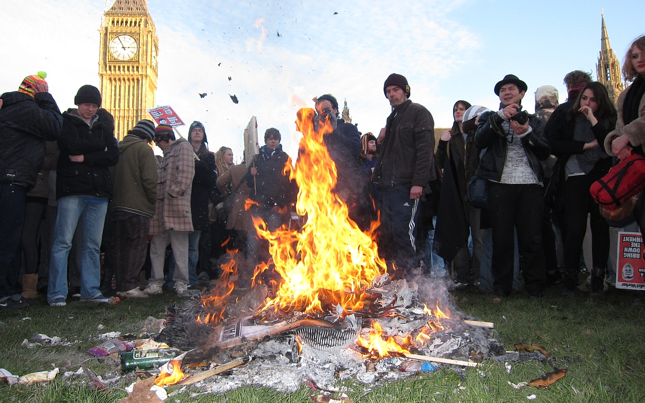 Burning : Student protests - Parliament Square, London 2010